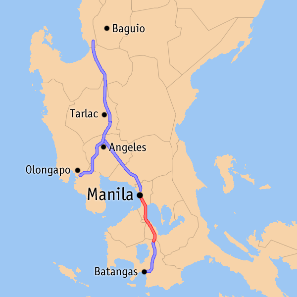 Map of expressways on Luzon in the Philippines, highlighting the South Luzon Expressway